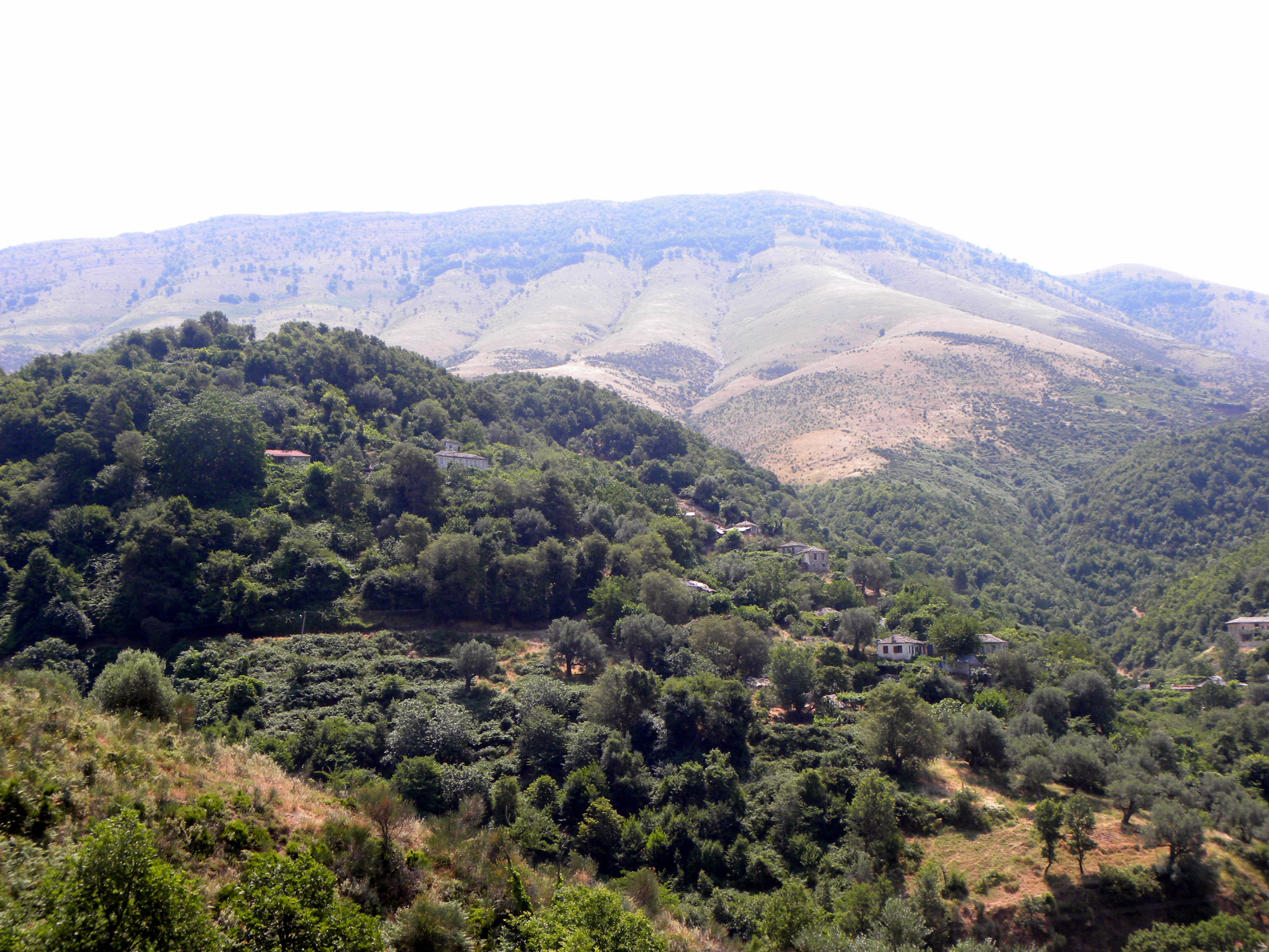 Southern Albania